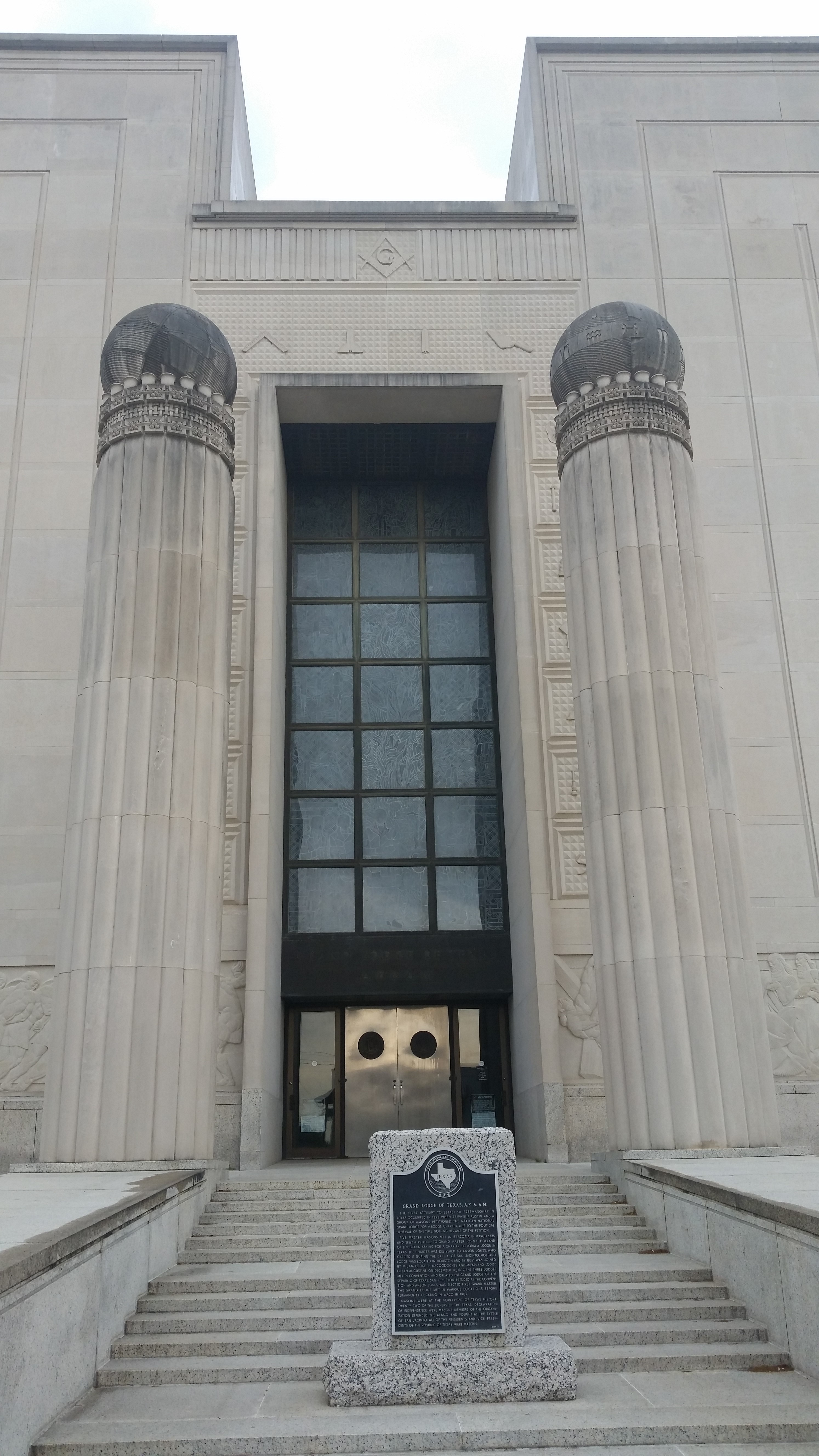 Waco Masonic Lodge, 715 Columbus Ave., Waco